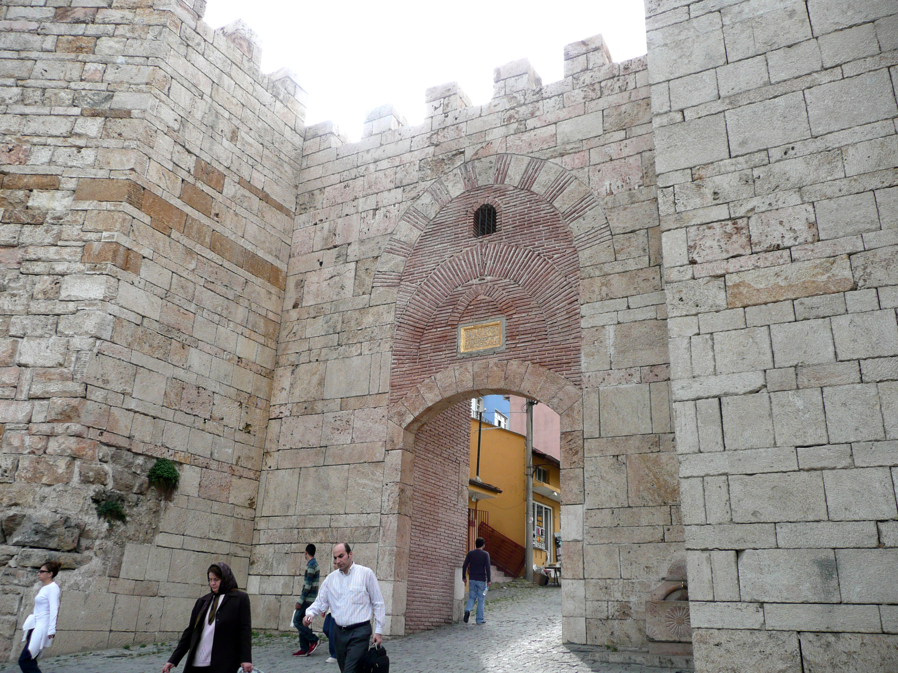 Bursa Kalesi - Castle